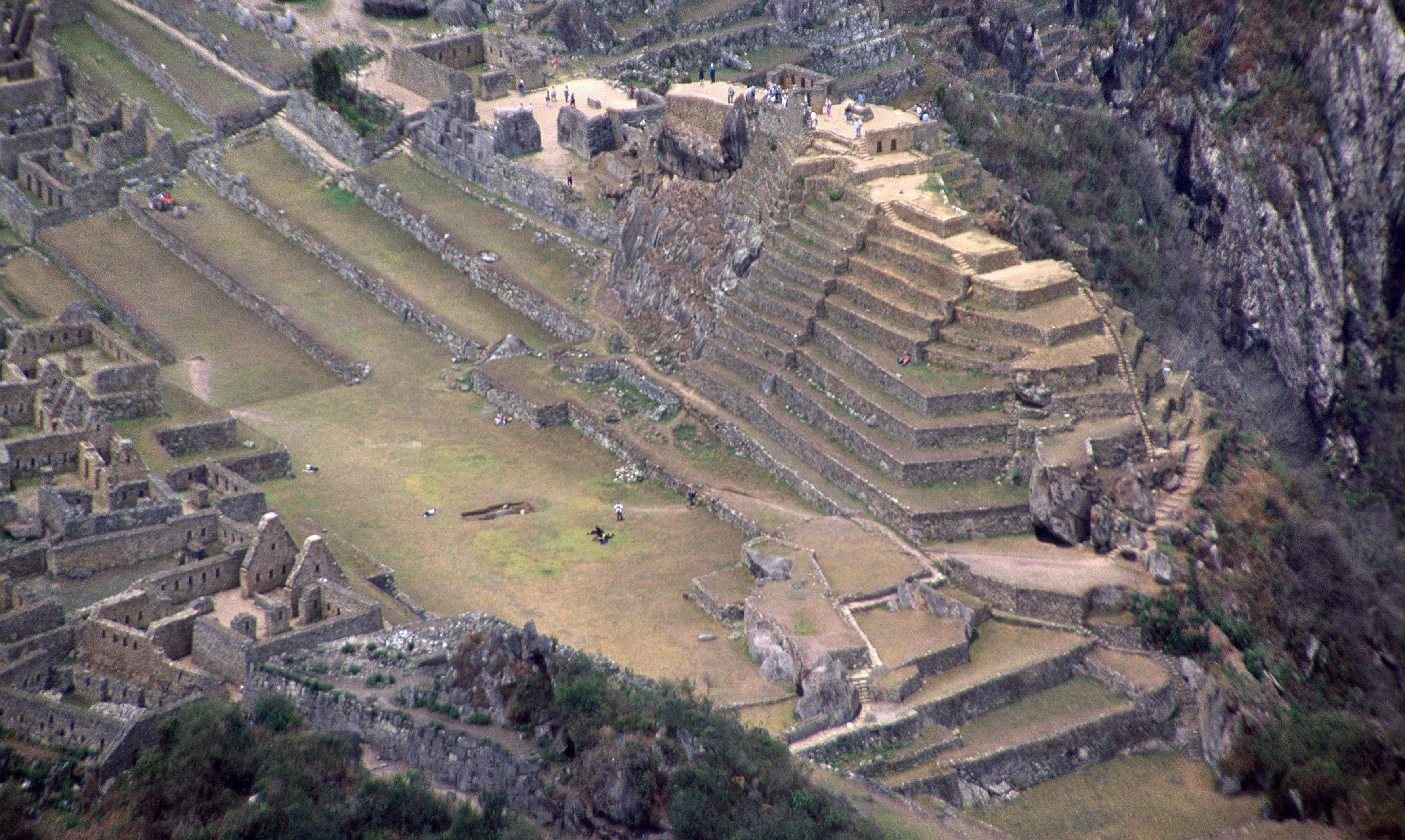 Machu Picchu, Perú. View of Sacred area and Central Square from the top of Wayna Picchu.